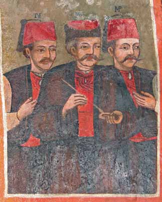 Saint Demetrius Church in Teshovo Mino, Marko and Teofil Minovi